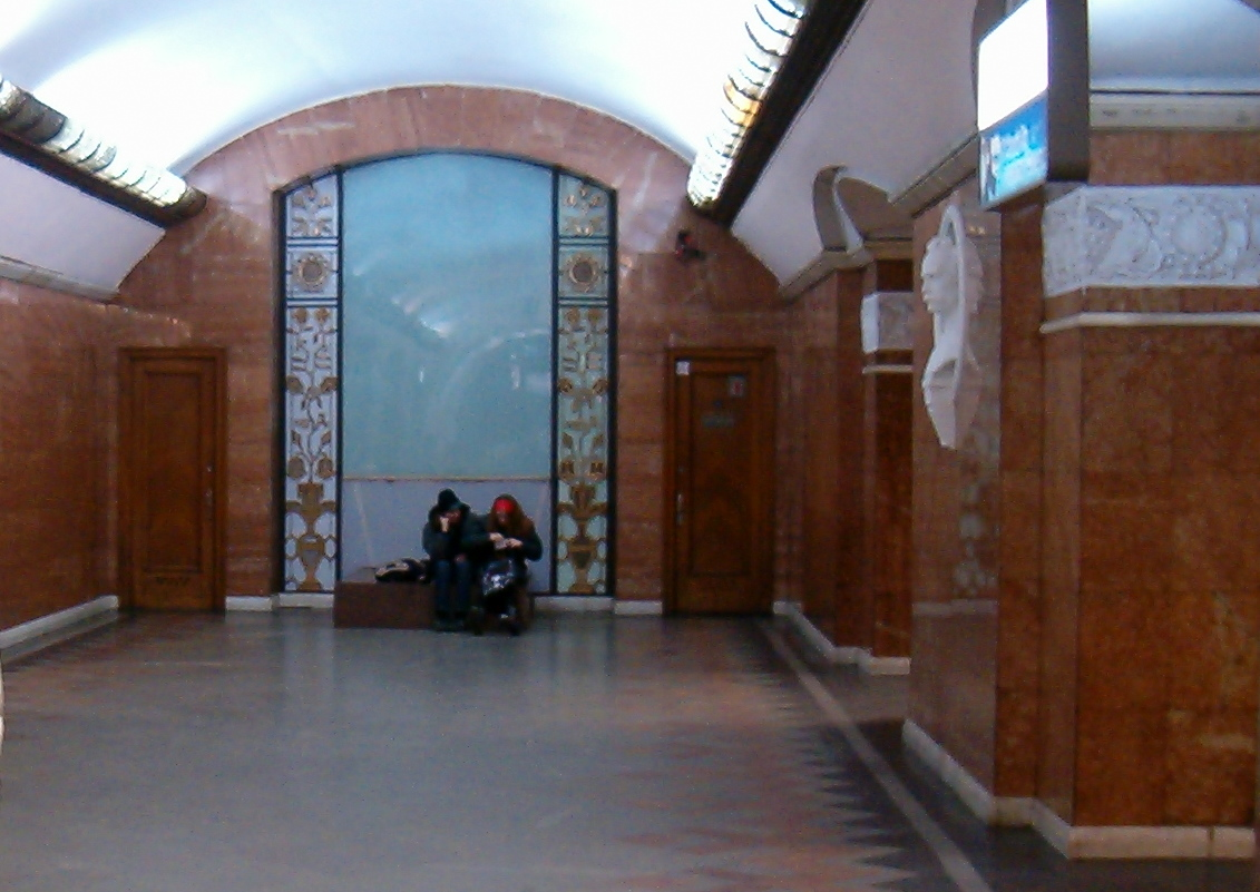 Universytet_Metro_Station_in_Kyiv